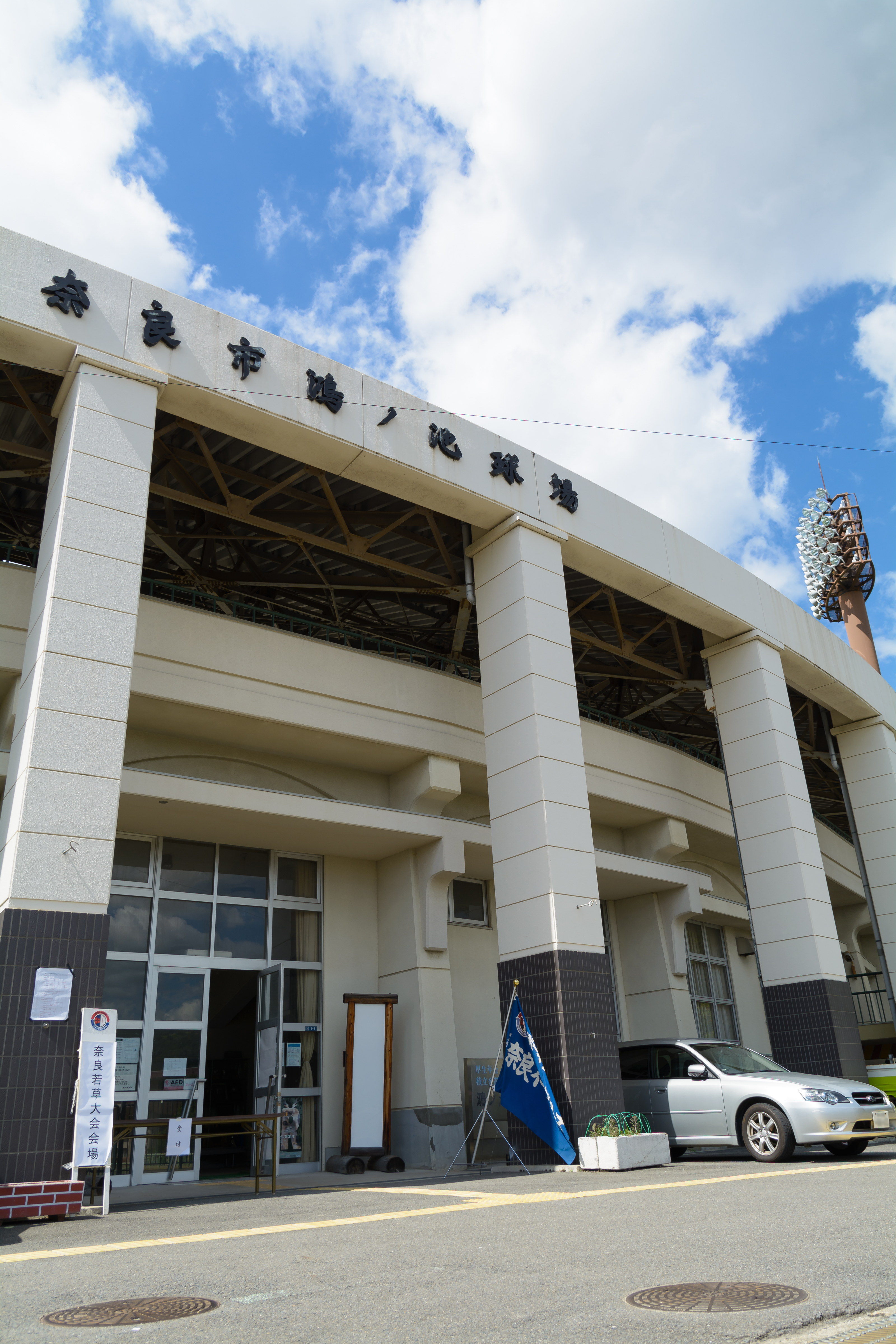 Kōnoike Baseball Stadium, Nara, Nara prefecture